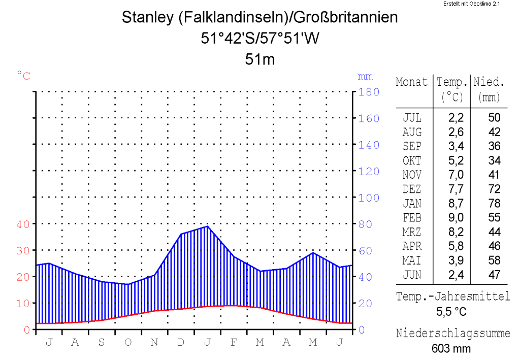 climate chart in the format by Walter and Lieth, metric, °Celsisus and millimeters, made with Geoklima 2.1